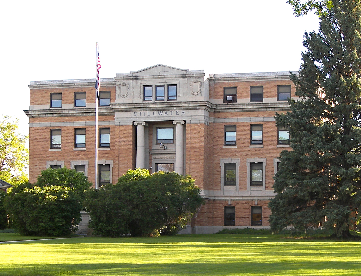 The Stillwater County Courthouse in Columbus, Montana, United States.